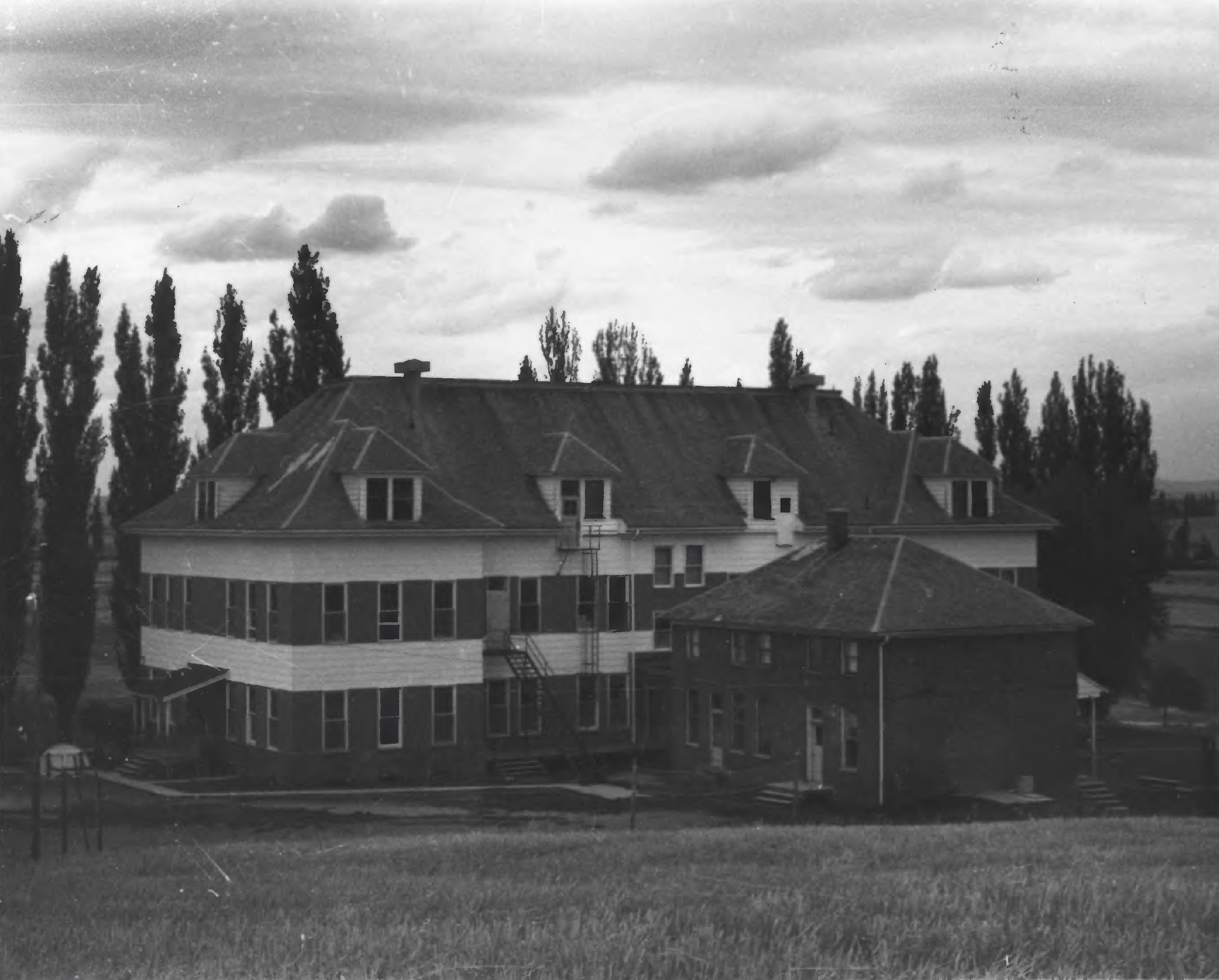 The historic school building of the Coeur d'Alene Mission of the Sacred Heart (built ca. 1900), formerly located in De Smet, Idaho, United States, is listed on the US National Register of Historic Places. The school building was destroyed by fire in 2011.